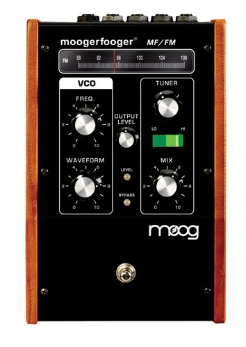 Graphic mock-up of another fictitious Moogerfooger published as an April Fool's Day joke